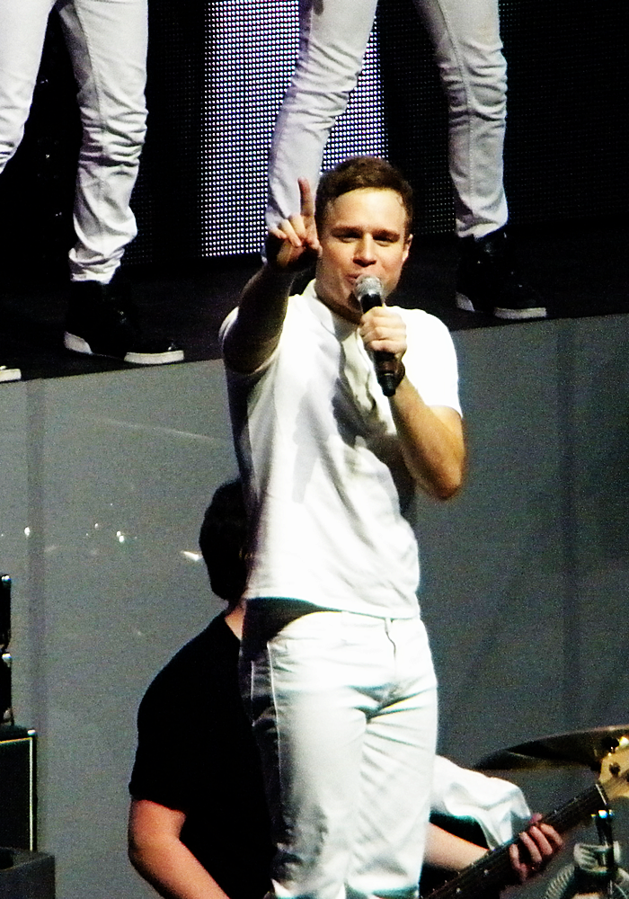 Olly Murs performing live on the 20th March, 2010 as part of the UK X Factor 2010 tour.